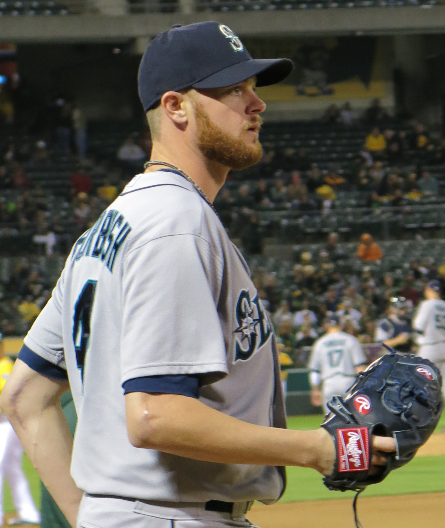 Seattle Mariners relief pitcher Charlie Furbush warms up in the bullpen in a game against the Athletics in Oakland, California.